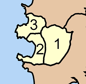 Map of Kathu district, Phuket province, Thailand, with the communes (tambon) numbered. Kathu (กะทู้) Pa Tong (ป่าตอง) Kamala (กมลา)